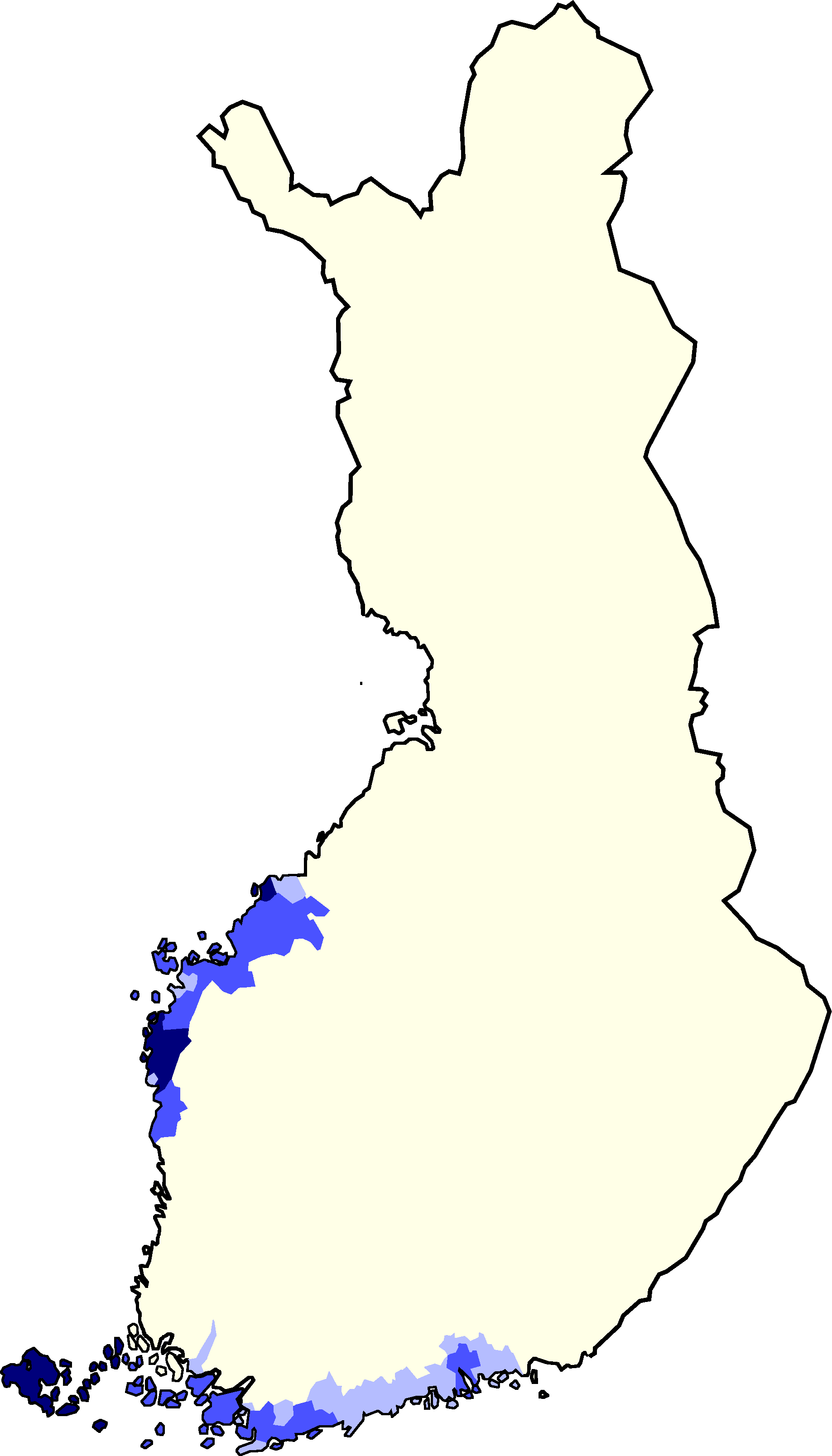 Location of the Swedish-speaking an bilingual cities and municipalties of Finland Dark blue: unilingually Swedish Middle blue: bilingual with Swedish as majority language Light blue: bilingual with Finnish as majority language White: unilingually Finnish